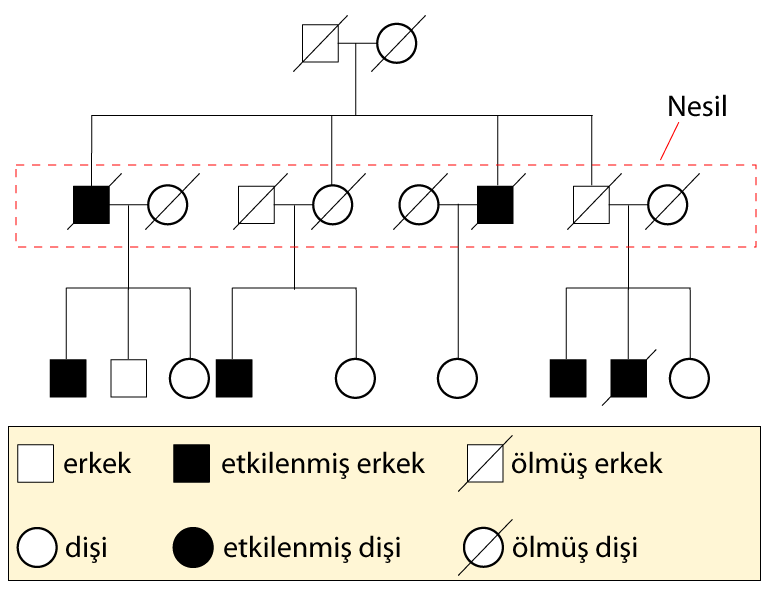 An example of pedigree chart.